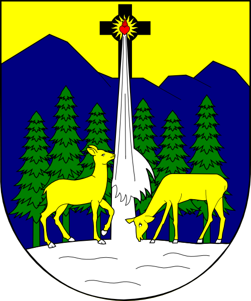 Coat of arms (shield only) of bl. Pavol Peter Gojdič (Павло Петро Ґойдич), bishop of Slovak Greek Catholic Church, bishop (eparch) of Prešov 1940 - 1950